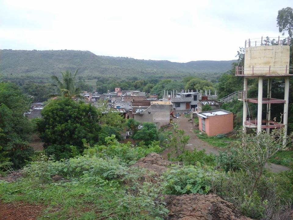 village